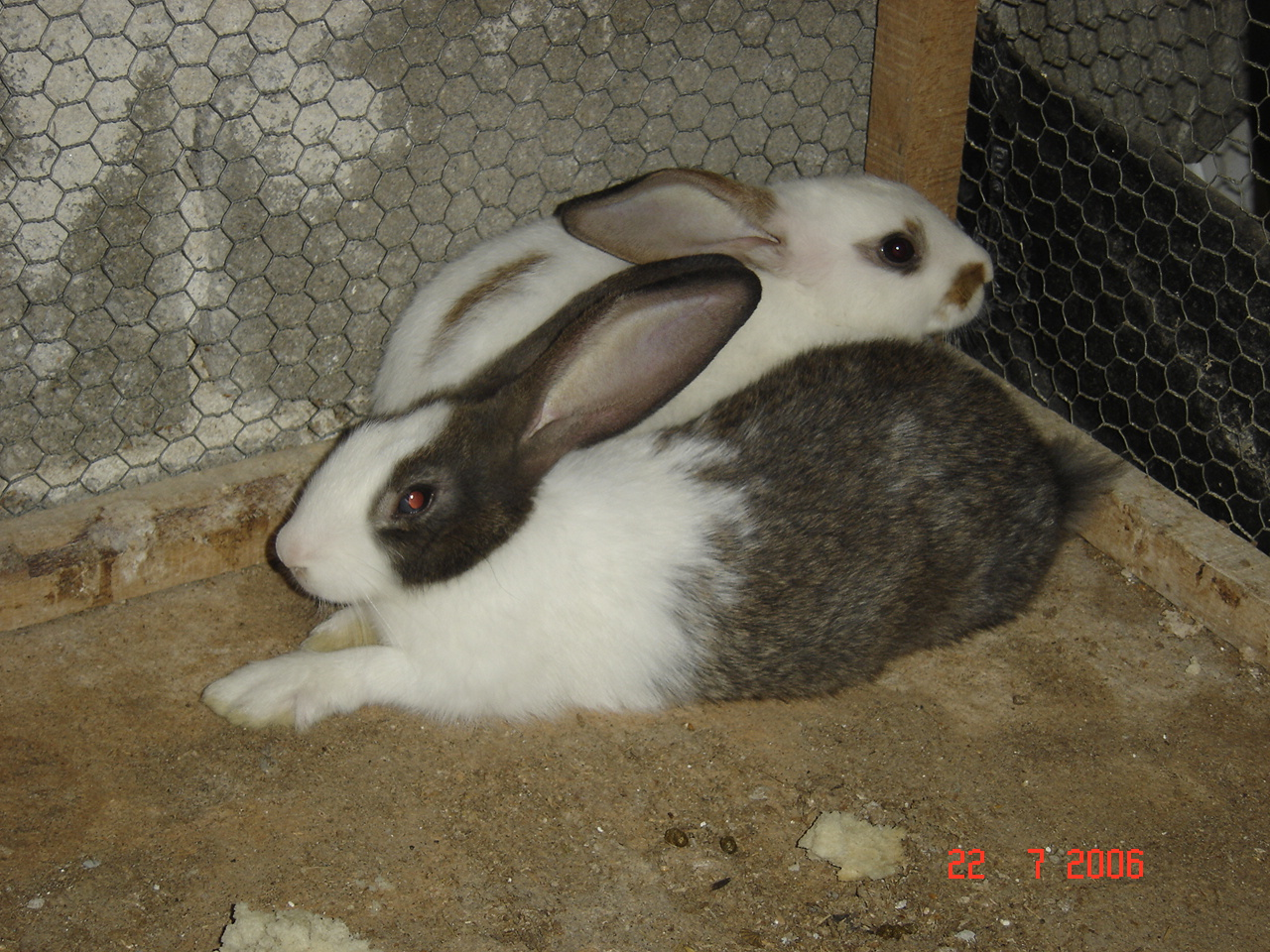 Domestic raabbits. Red-eye effect is also visible